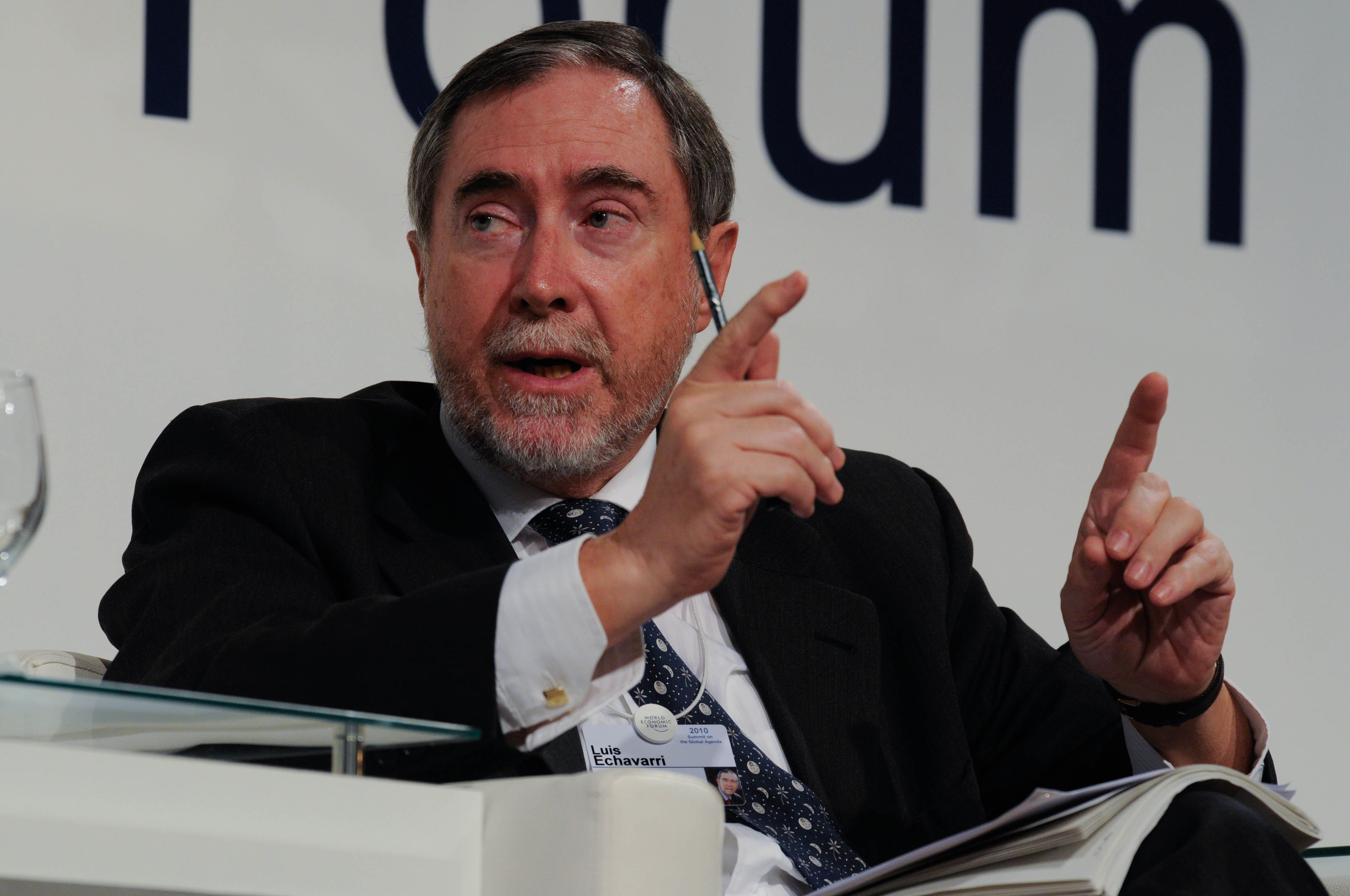 DUBAI, UNITED ARAB EMIRATES, O1DEC10 - Luis Echavarri, Director-General, OECD Nuclear Energy Agency, France; Global Agenda Council on Energy Security speaks on a panel at the World Economic Forum's Open Forum 2010 held in Dubai, 01 December 2010. Copyright (cc-by-sa) © World Economic Forum ( /Photo Norbert Schiller)